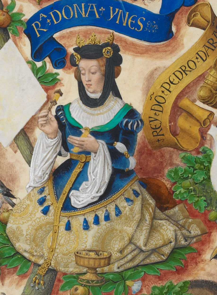 Agnes of Aquitaine, Queen of Aragon as first wife of Ramiro II, King of Aragon